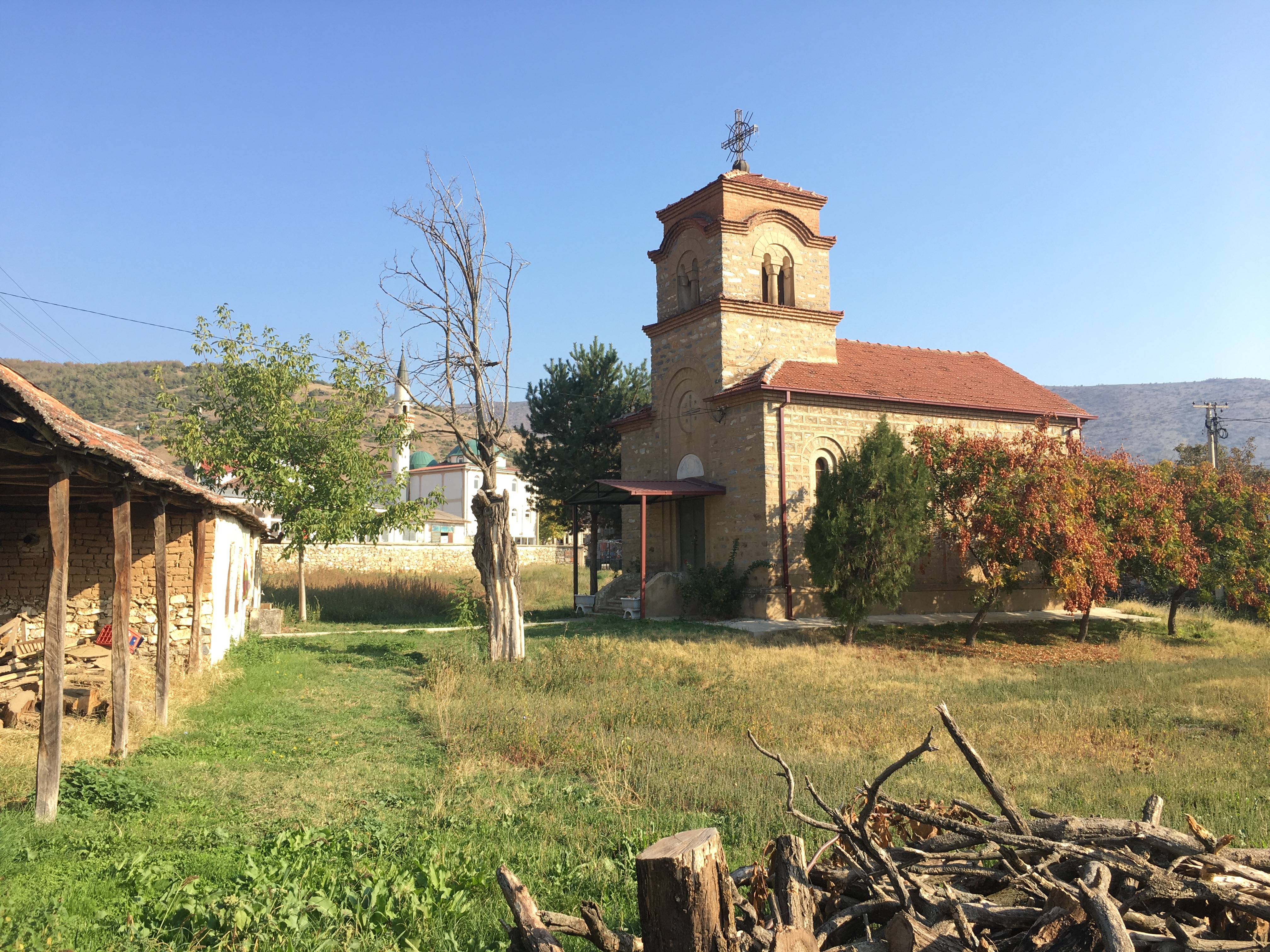 St. George Church's yard in the village of Debrešte